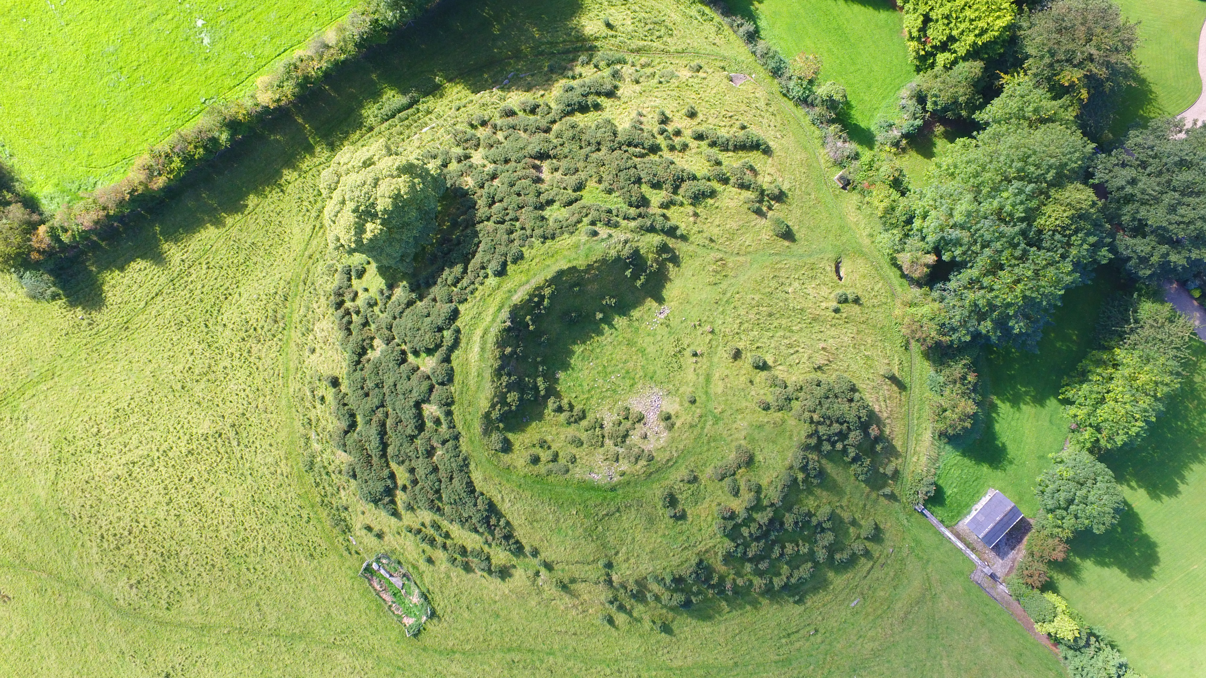 Dowth Passage Tomb